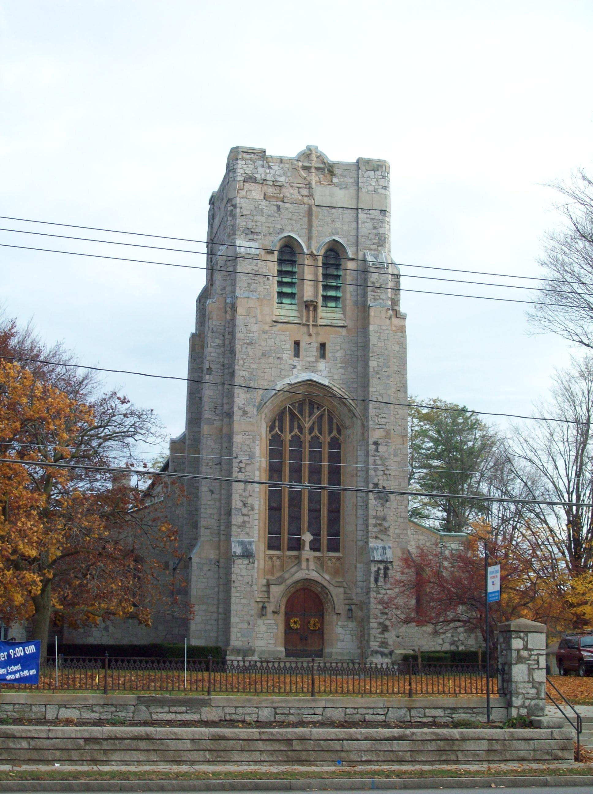 Saint James' Episcopal Church, Batavia NY, October 2009